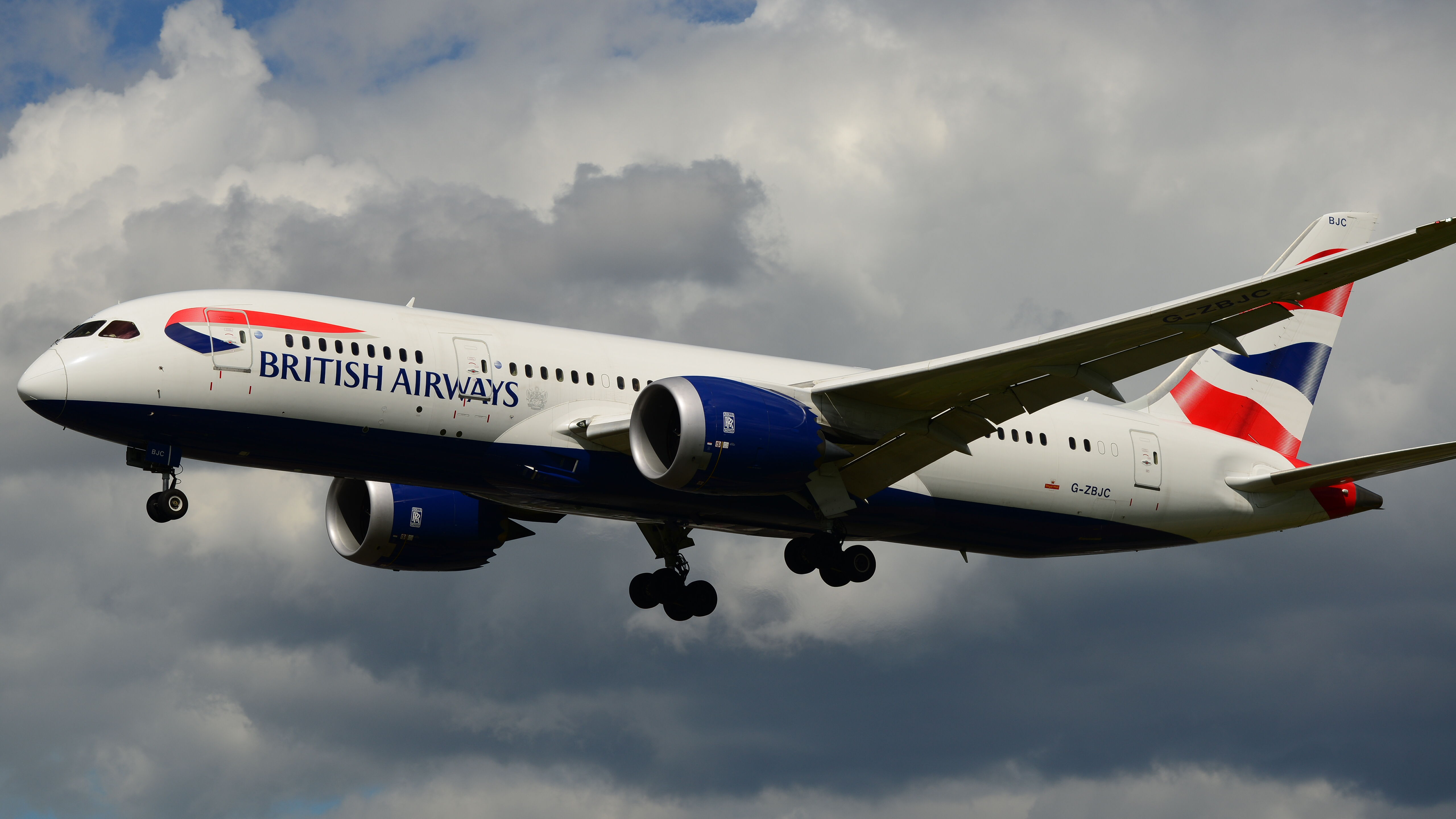 British Airways, G-ZBJC Boeing 787